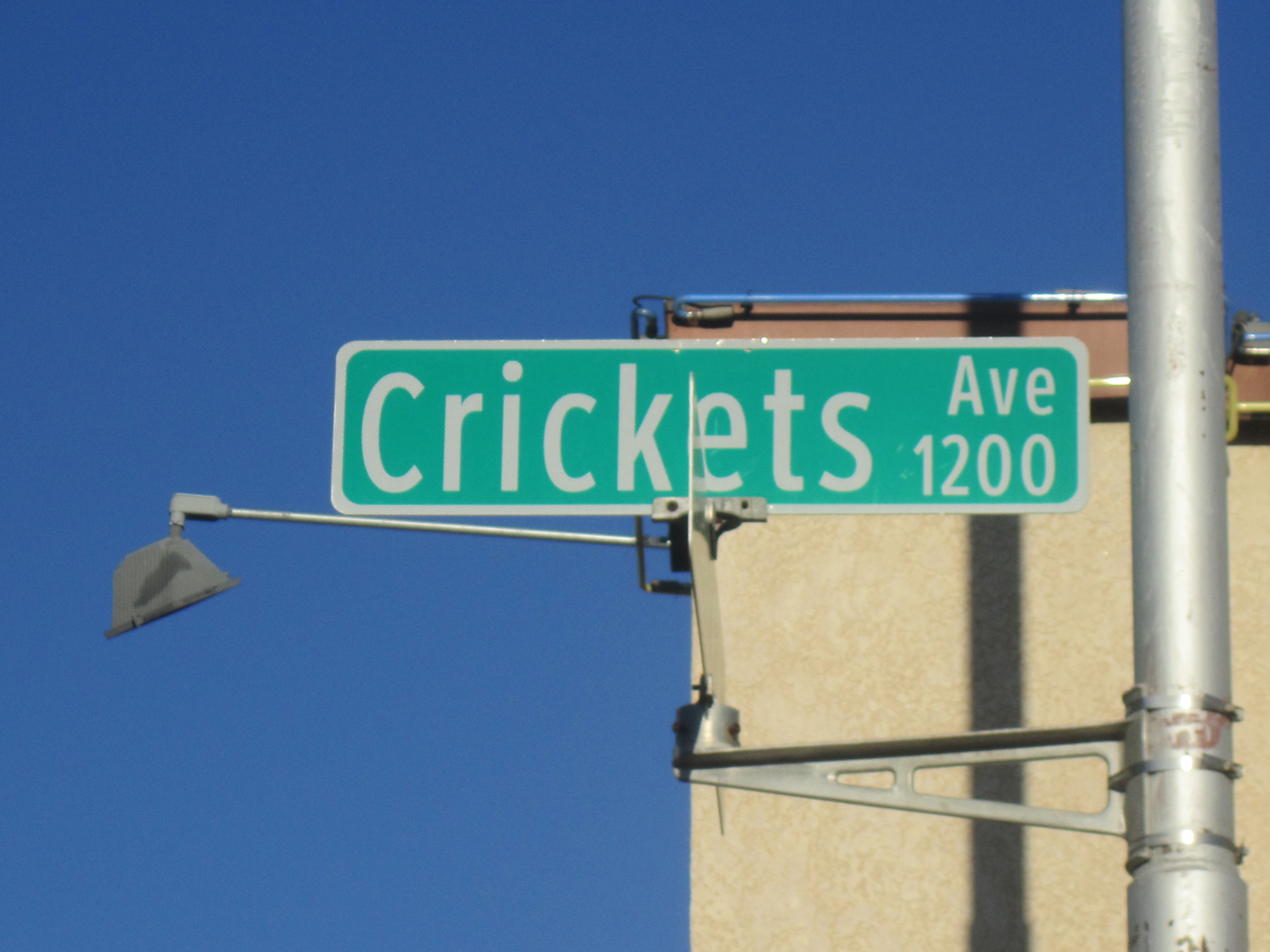 I took photo with Canon camera in Lubbock, TX.